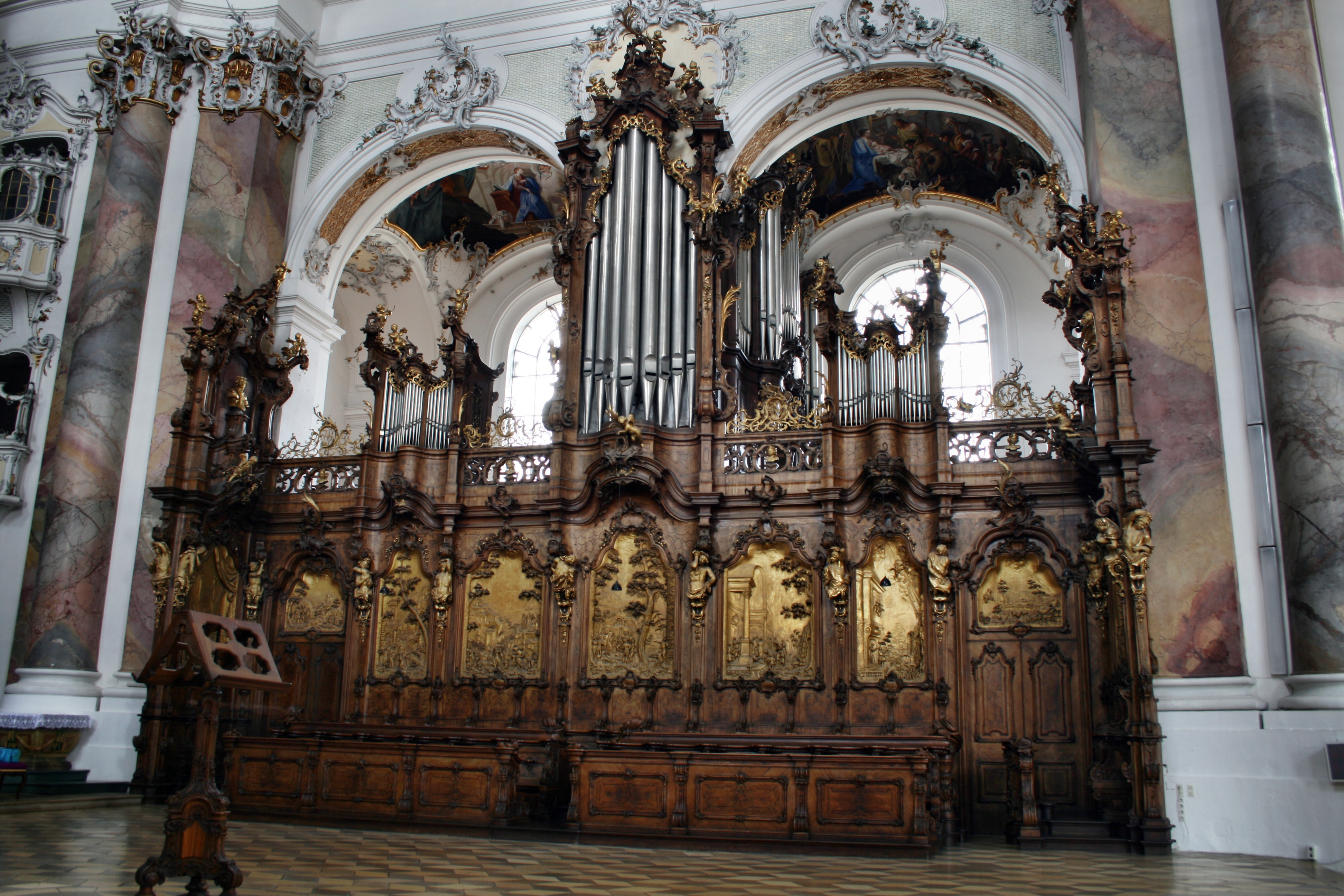 Ottobeuren (Swabia, Germany), basilica, organ of Charles Joseph Riepp.